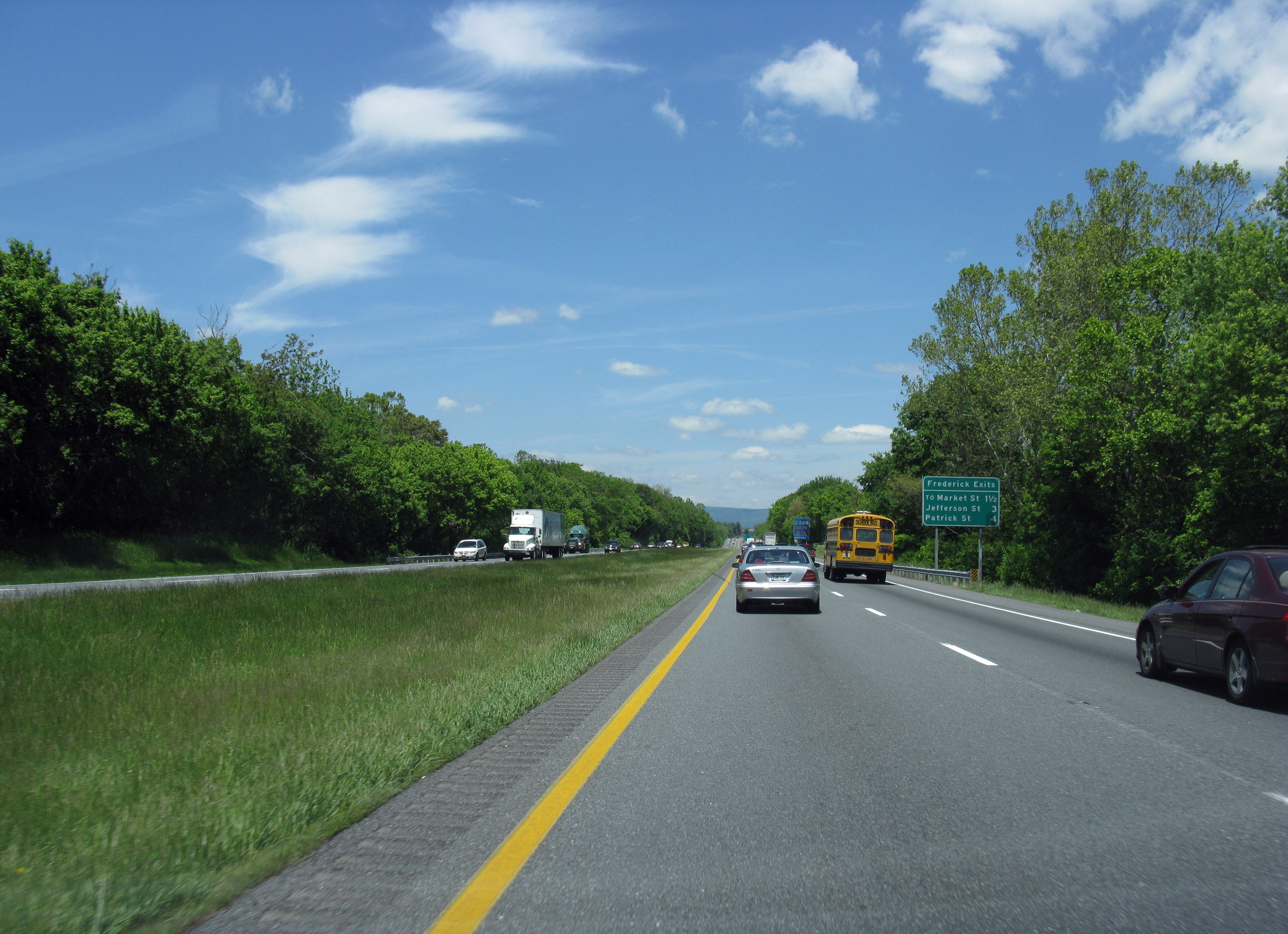 Northbound I-270 north of Baker Valley Road, Rockville, Maryland